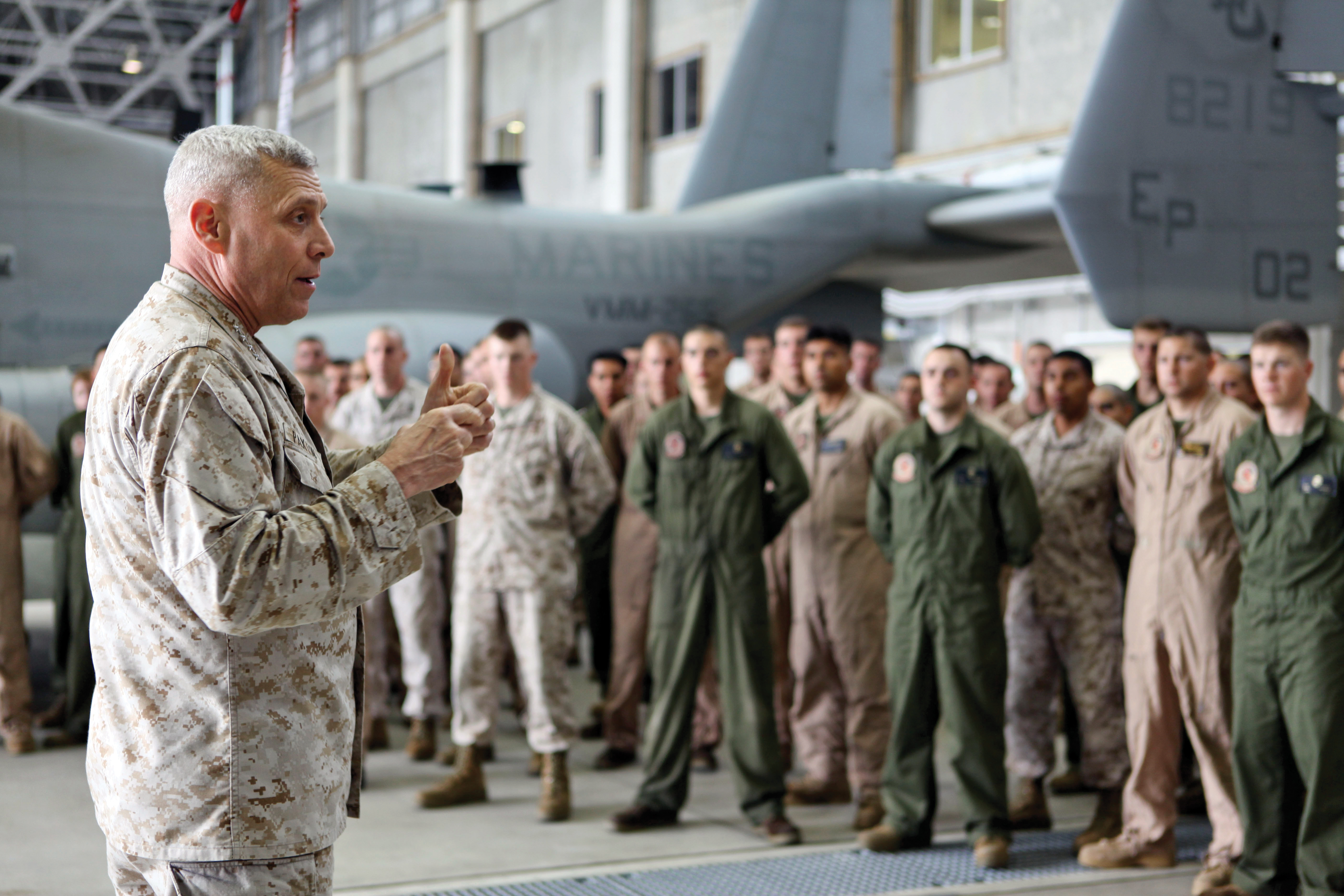 Assistant Commandant of the Marine Corps Gen. John M. Paxton Jr. discusses the importance of the Marine Corps' presence in the Asia-Pacific region March 18 at Marine Medium Tiltrotor Squadron 265's hangar during a flightline tour of Marine Corps Air Station Futenma. Paxton talked with Marines and observed units, training sites and Marine Corps facilities throughout Okinawa during his visit. (Photo by Cpl. Tia Dufour)